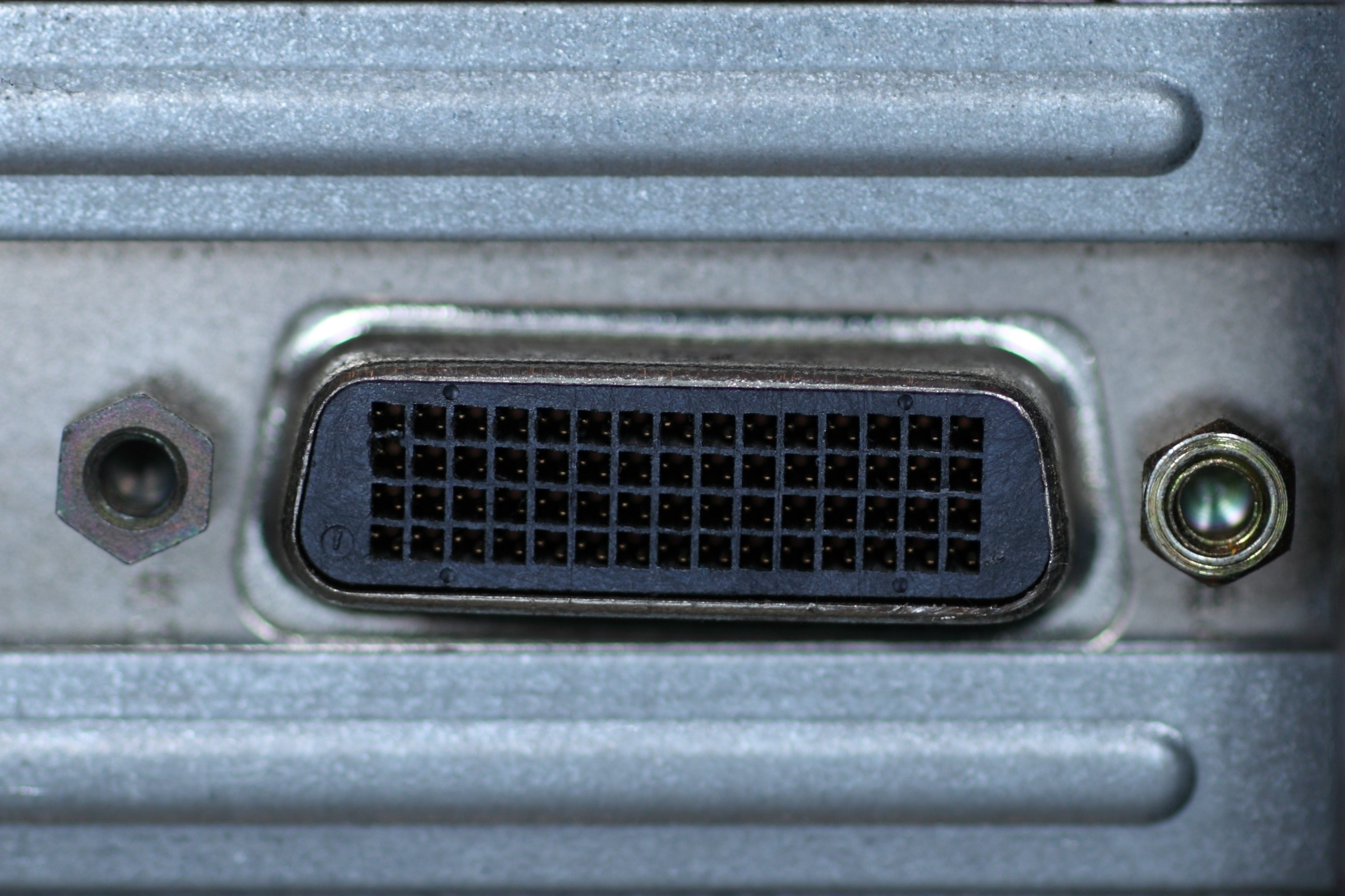 Photo of Matrox video card with LFH-60 video output connector